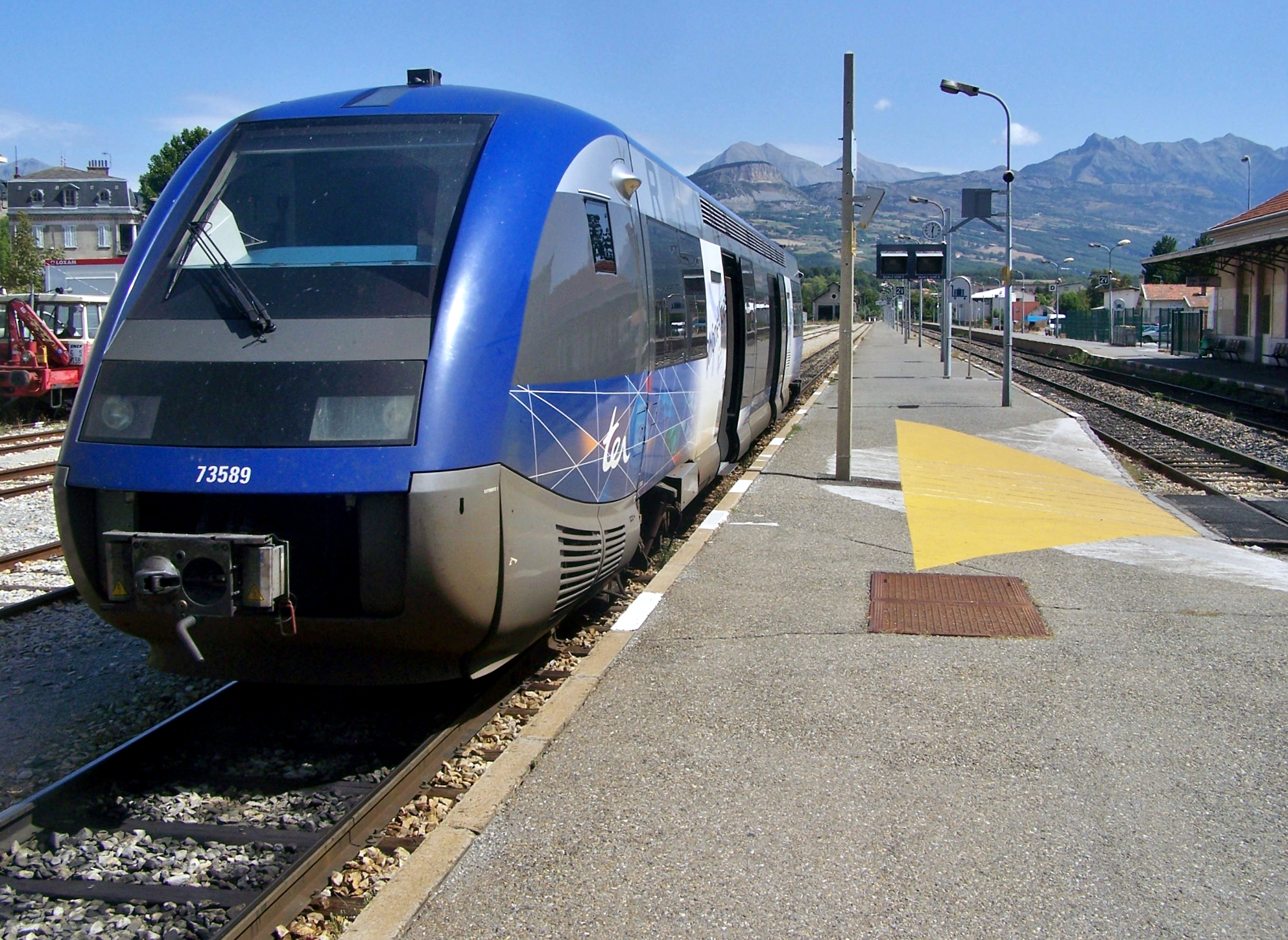 Sight of the French regional train n° 85605 just arrived from Grenoble on time at Gap railway station, in Hautes-Alpes.